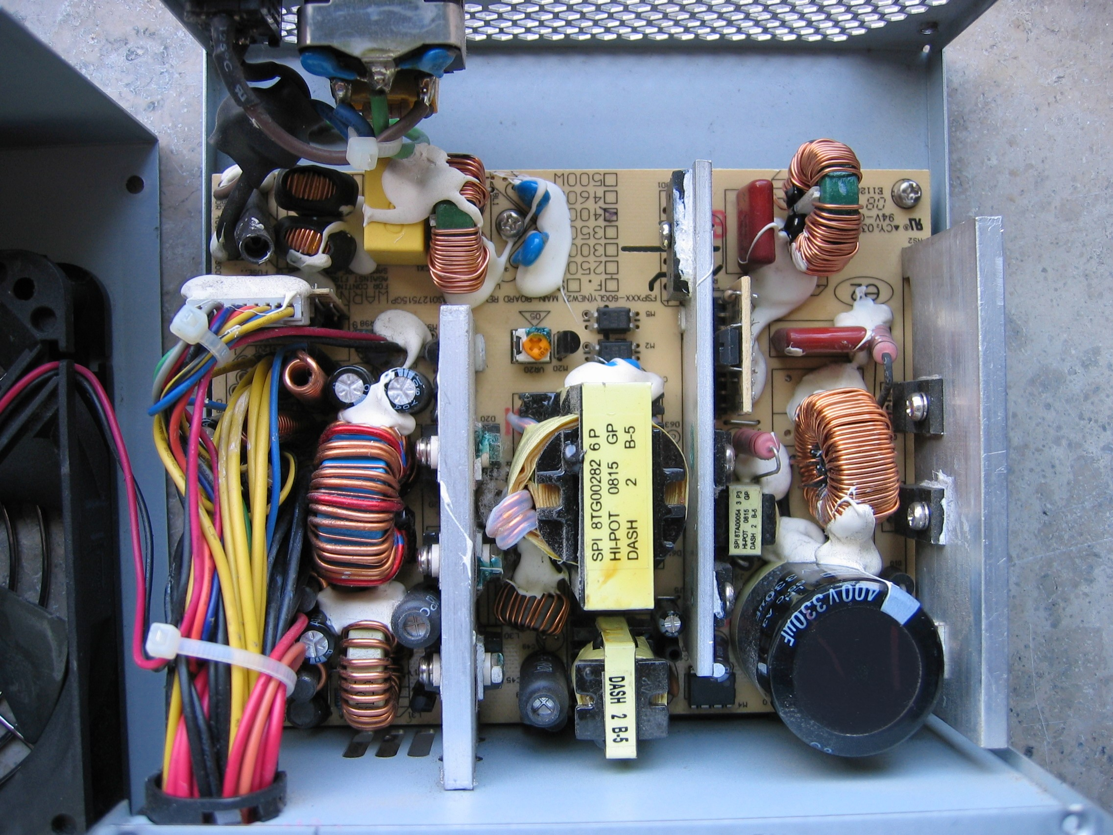 ATX PC-Netzteil 400W 12V2 80plus active PFC